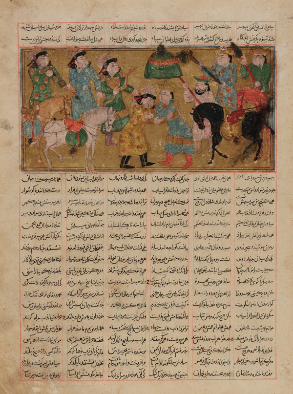 Folio (The hero Piran welcomed by prince Siyawakhsh) from Shahnameh (Book of Kings).